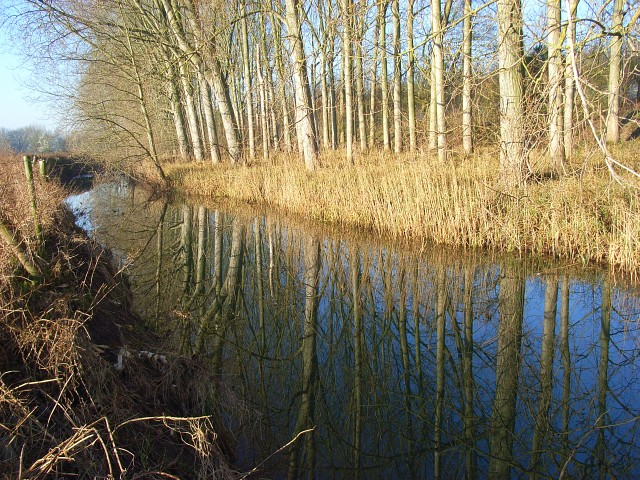 Berry Brook A stream on the northern edge of the Thames floodplain.